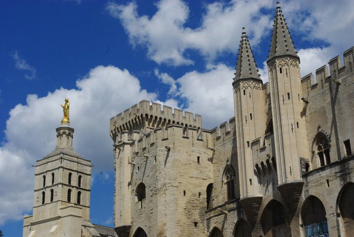 View of the Papal Palace (Palais des papes) in Avignon, France.